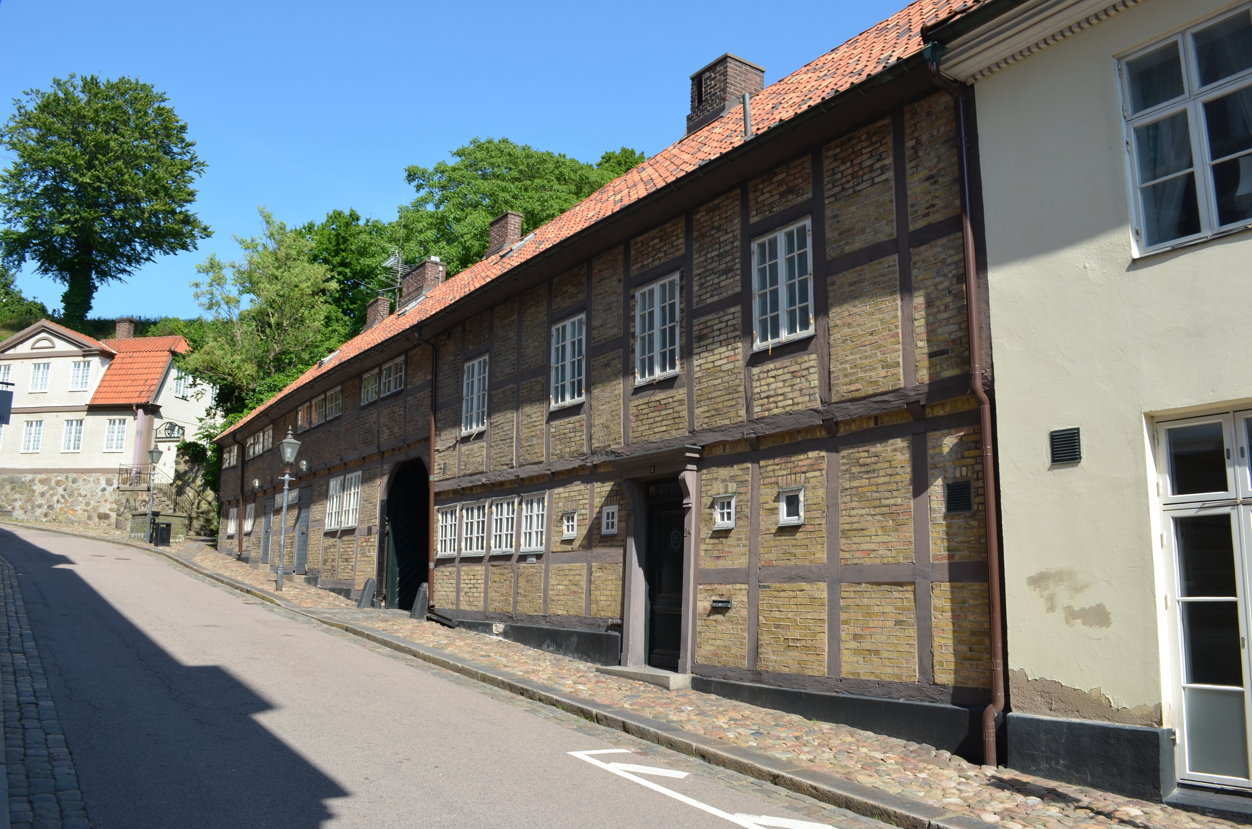 Henckelska gården in Helsingborg